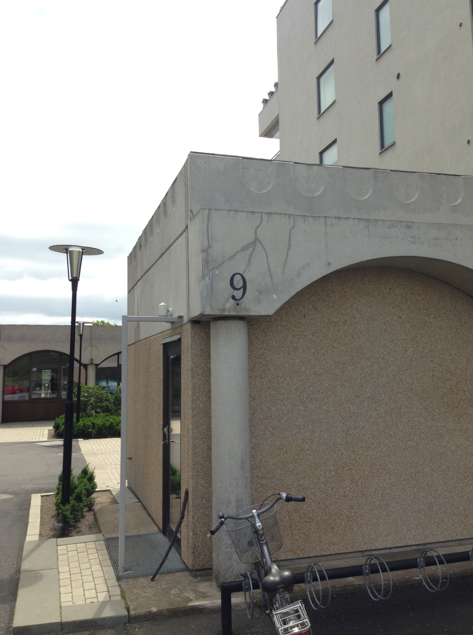 The number nine on a house in Malmö, Sweden, 2013.